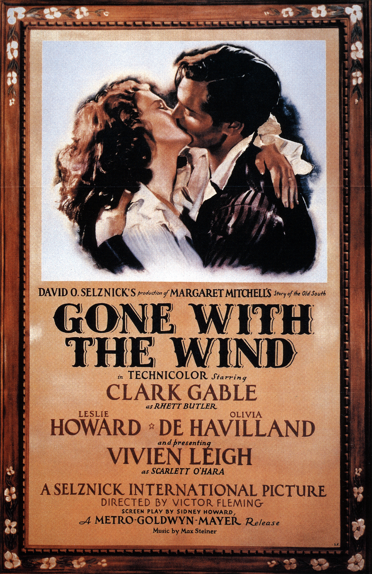 Film poster for Gone with the Wind. The public domain status of the poster is confirmed by court decision, although limitations may apply.